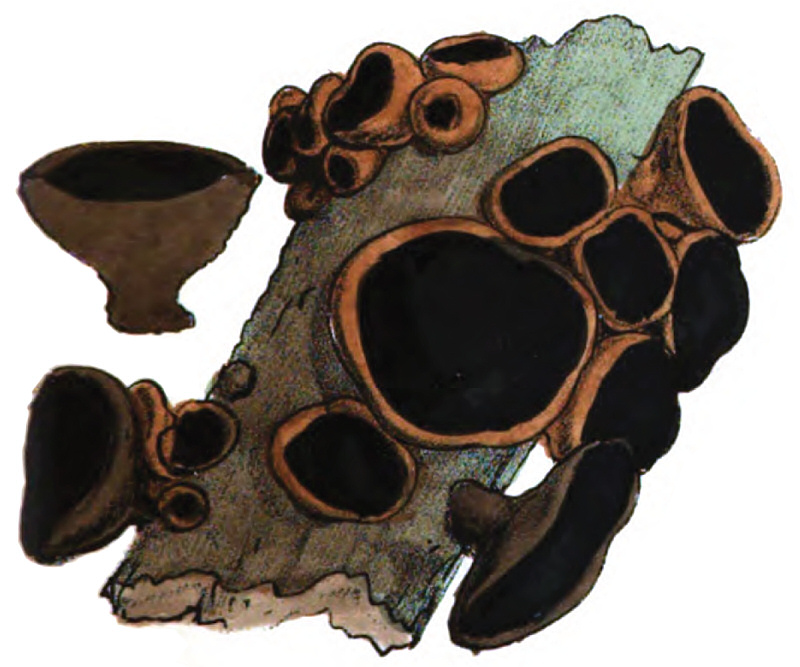 Illustration of Bulgaria inquinans from Outlines of British fungology